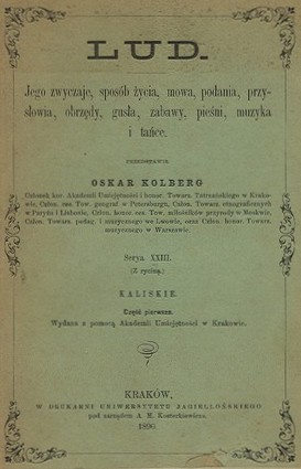 Front page of (below)